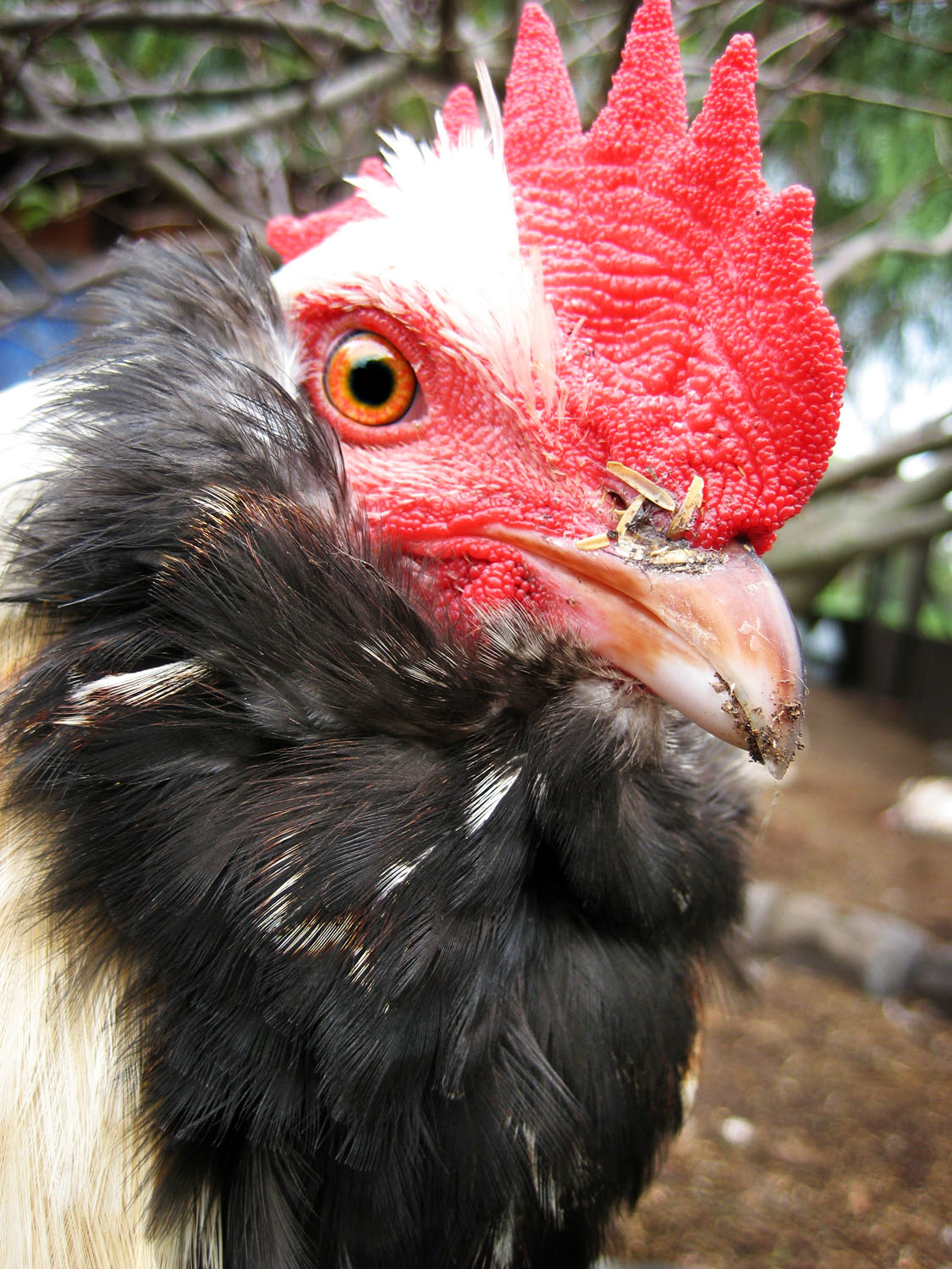 Close-up of a Salmon Faverolle rooster at Collingwood Children's Farm